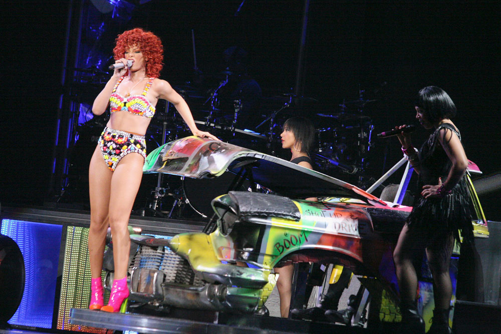 Rihanna Live at Target Center on her LOUD Tour.